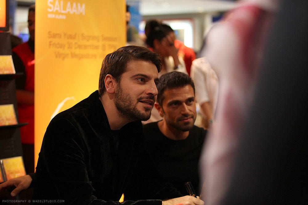 Producer and Director Ahmed Salim with International Artist and Composer Sami Yusuf at the launch of a new album in Doha, Qatar.